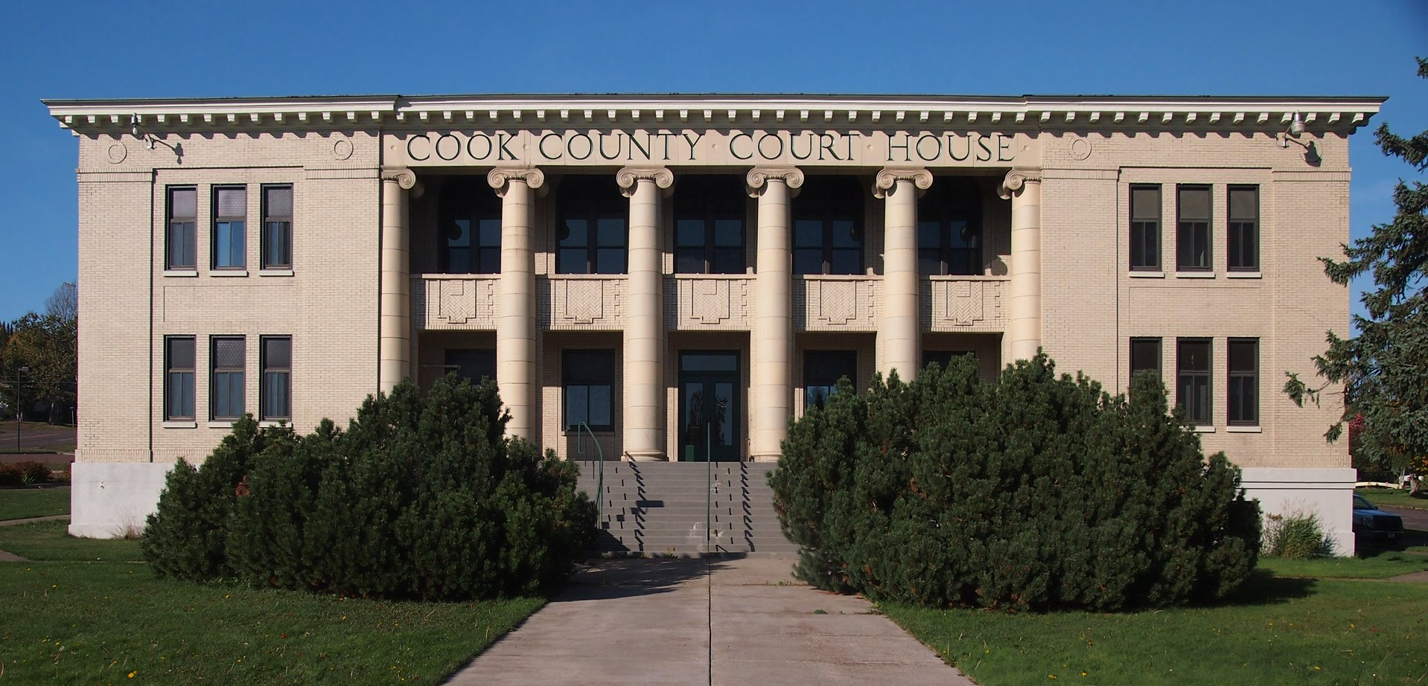 Cook County Courthouse, 411 2nd St, Grand Marais, Minnesota, USA. Viewed from the south.